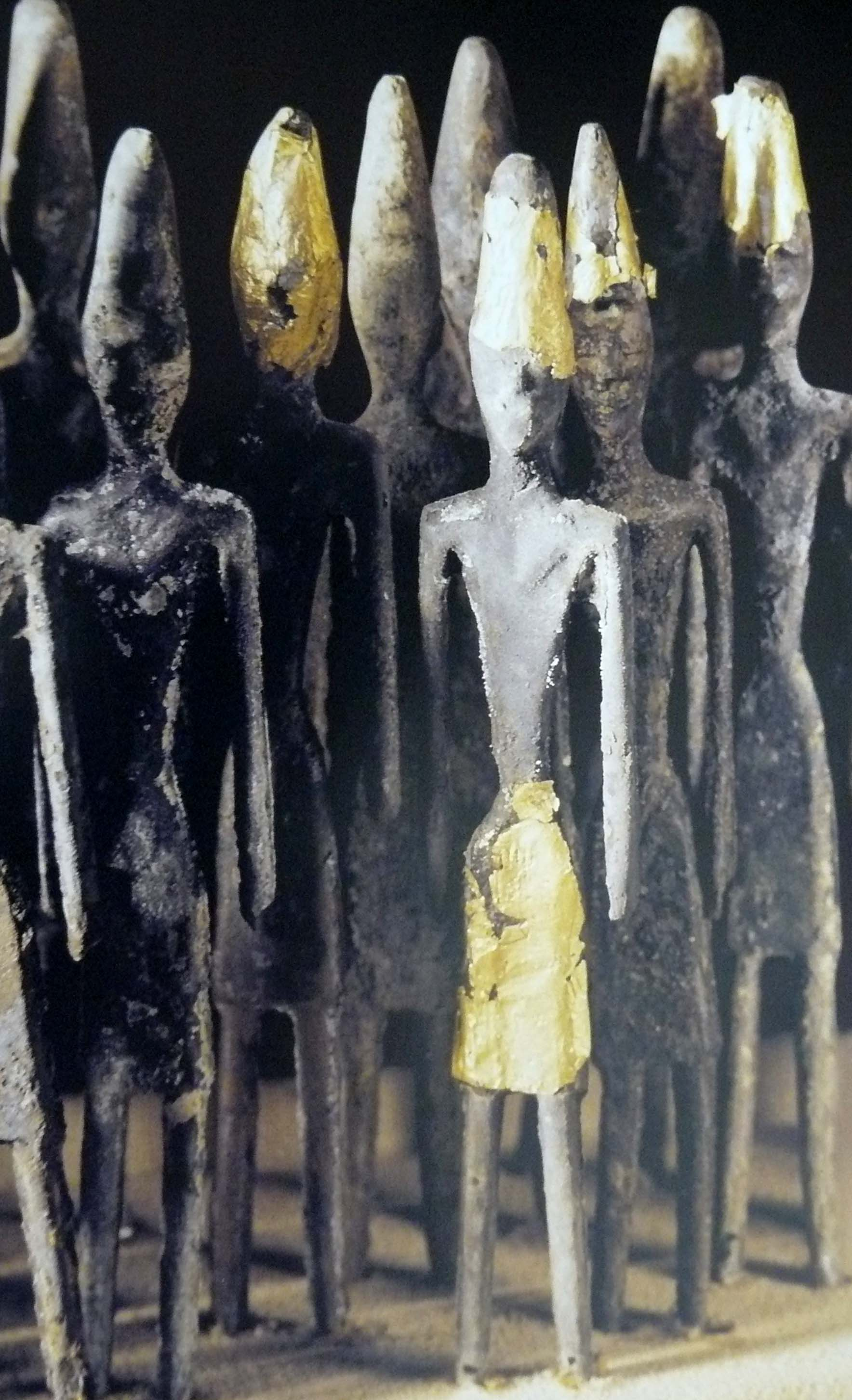 19th-18th century BC Phoenician statuettes from Byblos (the Byblos figurines). Now in the National Museum of Beirut.